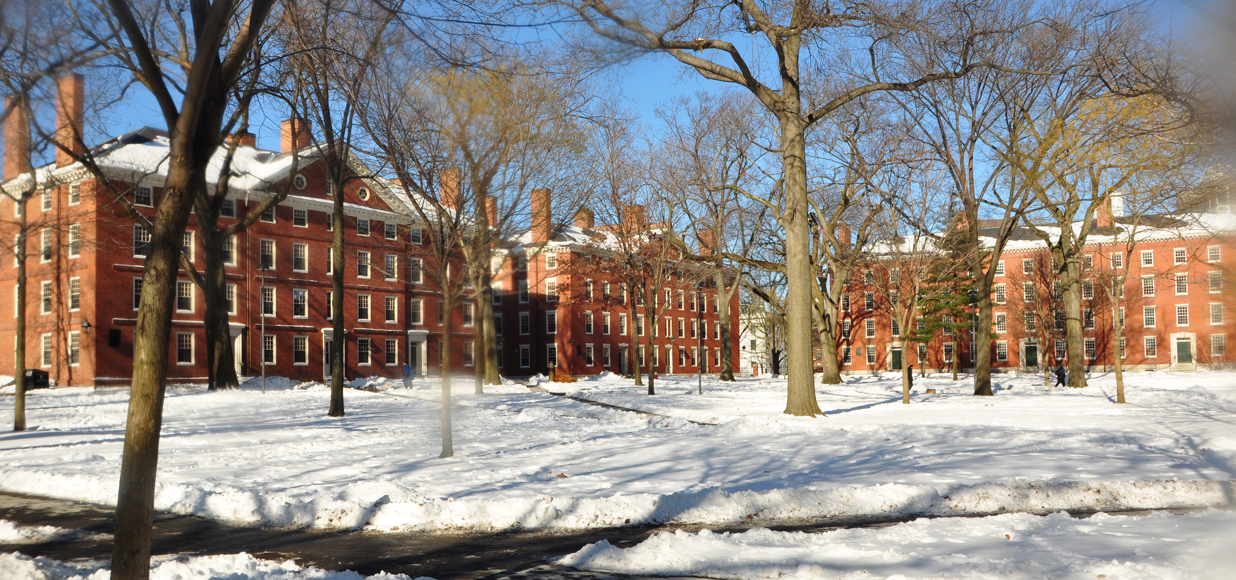 Harvard Yard winter 2009.